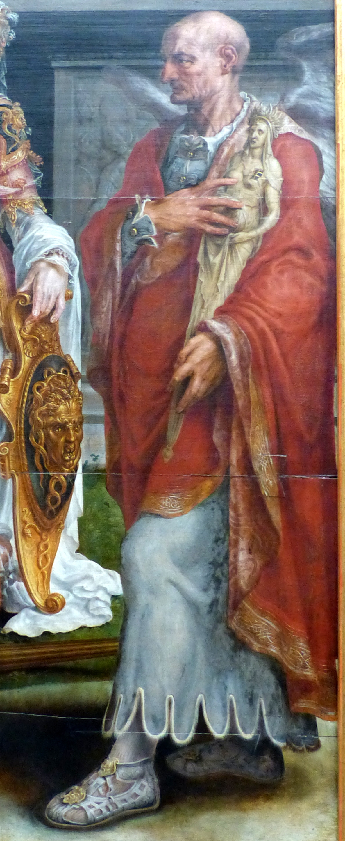 Momus blames the works of the gods; Detail: Momos with a marotte in his hands. F.l.t.r.: Poseidon, Aphrodite, Hephaistos, Pallas Athene, Momos with Marotte